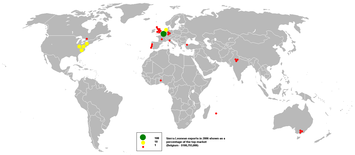 This bubble map shows the global distribution of Sierra Leonean exports in 2006 as a percentage of the top market (Belgium - $108,793,000). This map is consistent with incomplete set of data too as long as the top producer is known. It resolves the accessibility issues faced by colour-coded maps that may not be properly rendered in old computer screens. Data was extracted on 19th September 2007 from Based on :Image:BlankMap-World.png